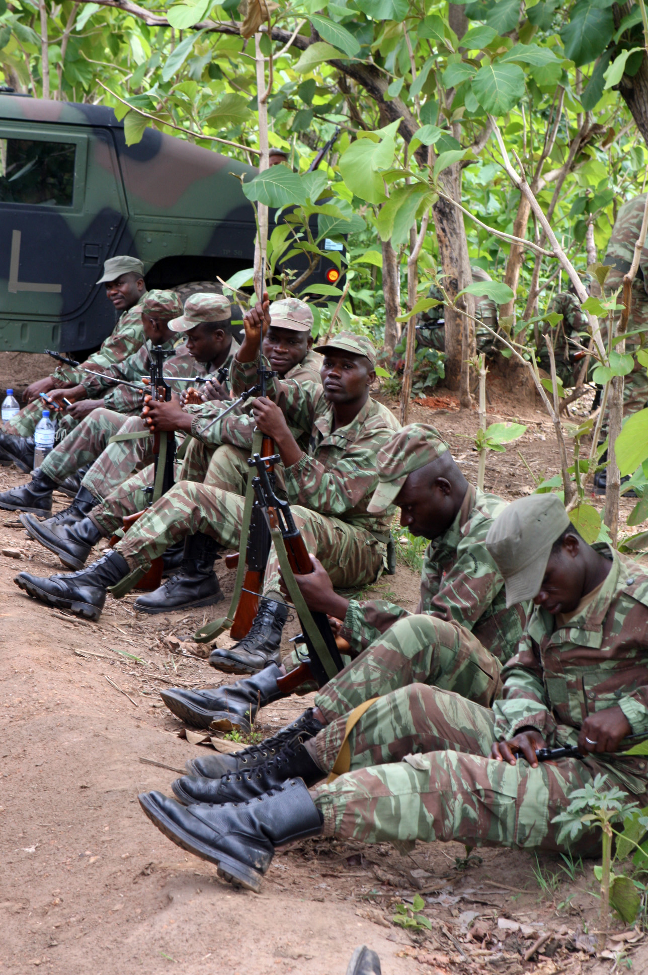 Soldiers with 3rd Company, Beninese Army check ammunition and weapons on range 2 at the Center of Military Information Bembèrèkè, Benin, June 12, 2009, during Exercise Shared Accord. The exercise is a scheduled combined U.S.-Benin military exercise that includes humanitarian and civil affairs projects. VIRIN: 090612-M-8213R-010